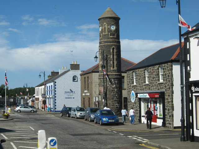 Bushmills Clock Tower